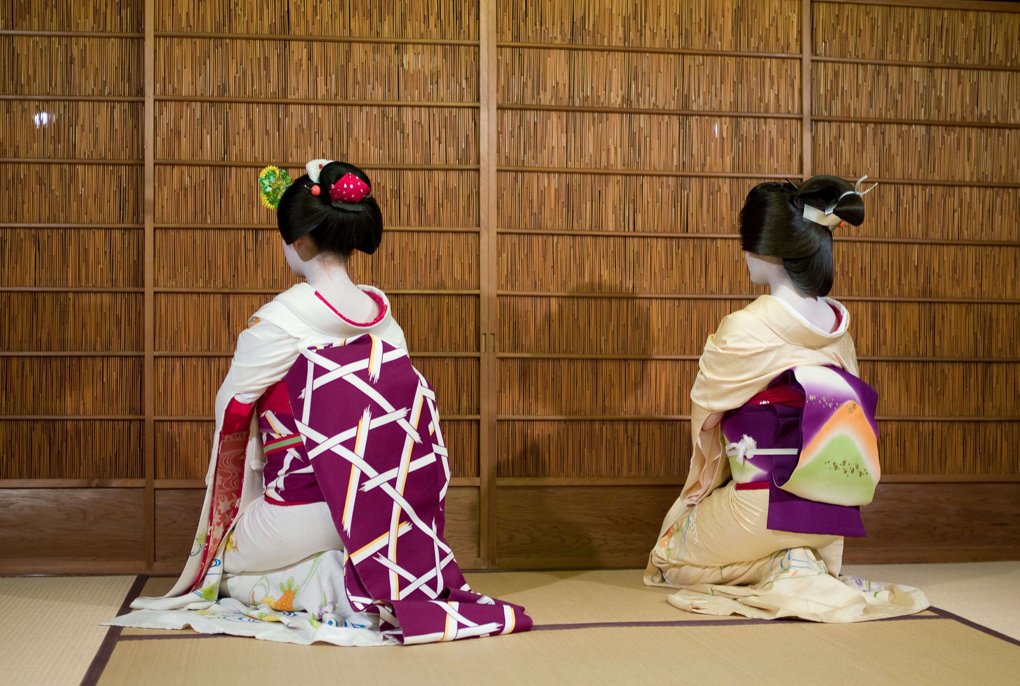 Differences between maiko (left) and geiko (right)